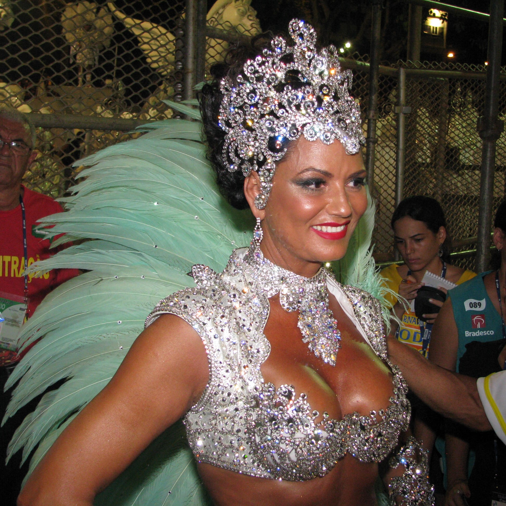 Luiza Brunet at Marquês de Sapucaí. Rio de Janeiro Carnival.